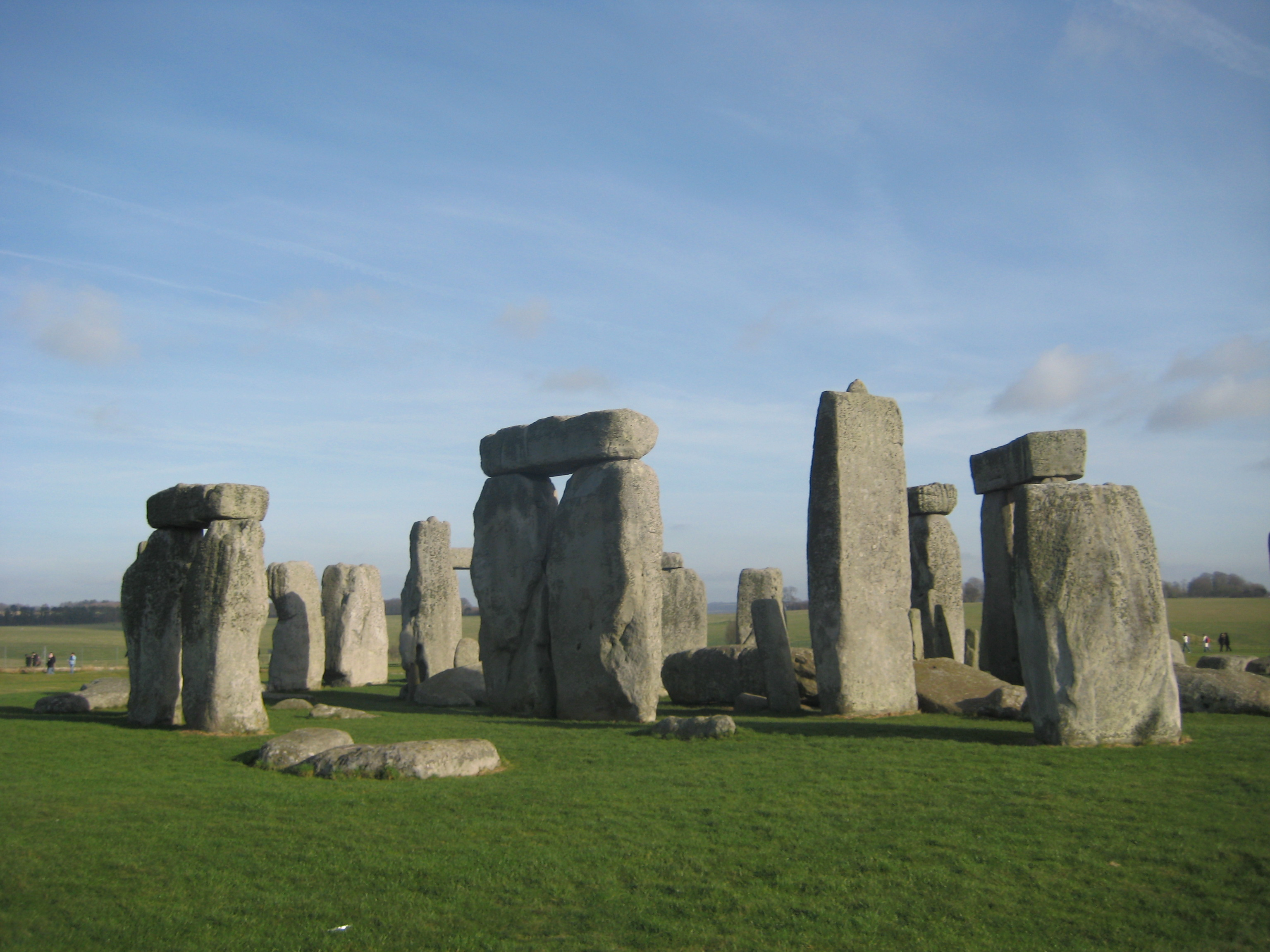 Stonehenge on my birthday